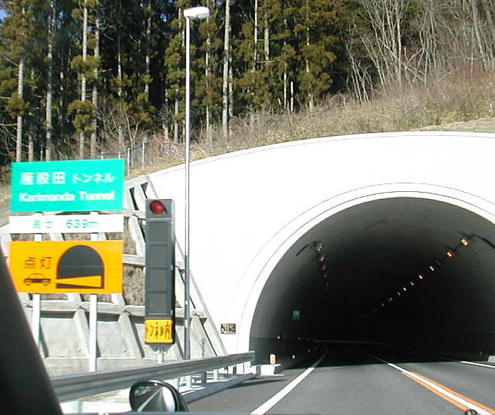 The Karimanda Tunnel on the Abukuma Kogen Road in Fukushima Prefecture, Japan